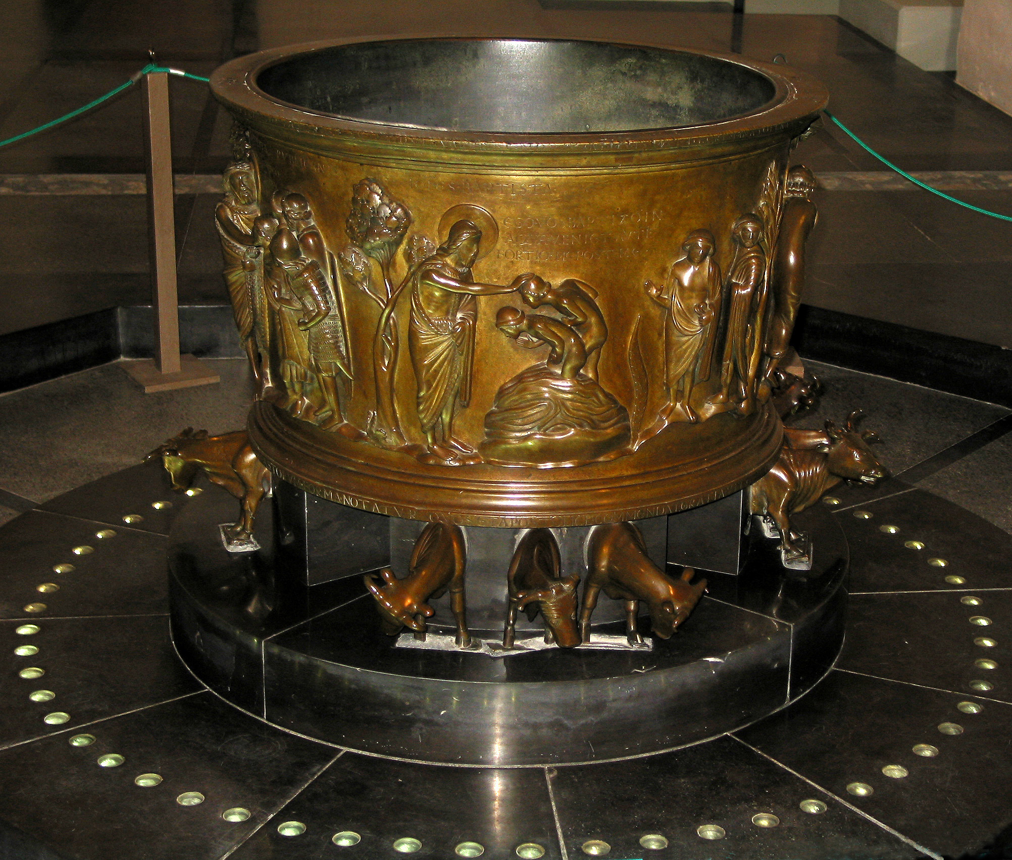 Liège (Belgium), St. Barhélemy (Bartholomew) - Baptismal font of Renier de Huy (begin of the XIIth century). - The baptism of the two catechumenes.